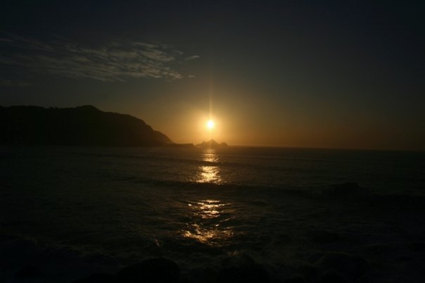 Dusk/Sunrise of Manyuchi Dam.